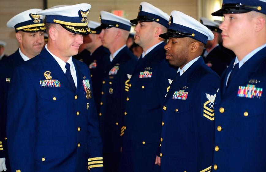 Cmdr. Kevin Riddle and Cmdr. Stephen White inspect the crew of the Coast Guard Cutter Alex Haley during a change of command ceremony at the Golden Anchor on Coast Guard Base Kodiak June 7, 2013, in Kodiak, Alaska.